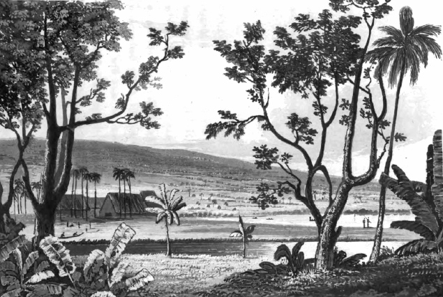 The 7th Baron Lord Byron visited Hilo in 1825. This was a painting by the Robert Dampier of the mission station there, only a few thatched huts at the time.